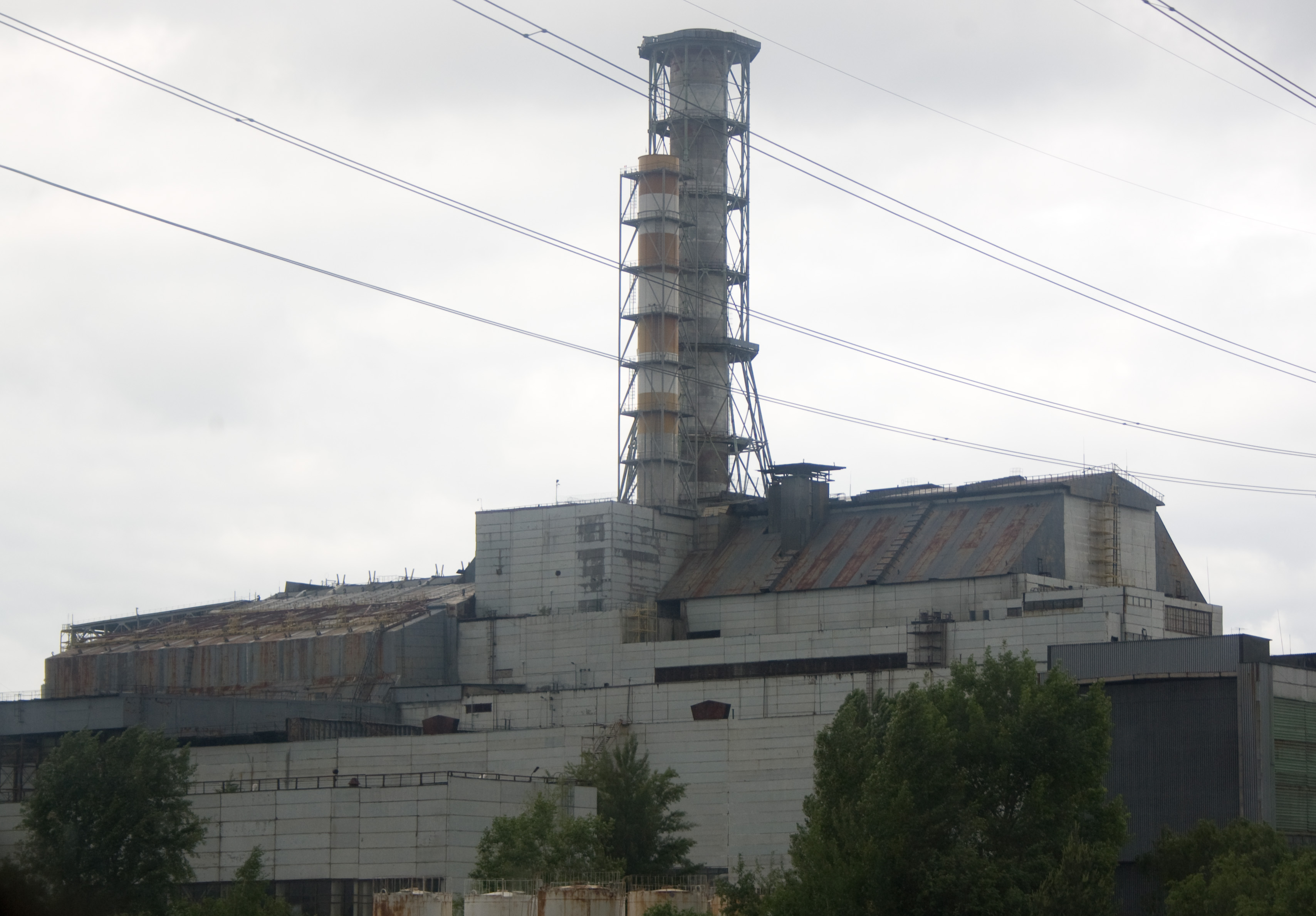 Chernobyl nuclear power plant area, Ukraine